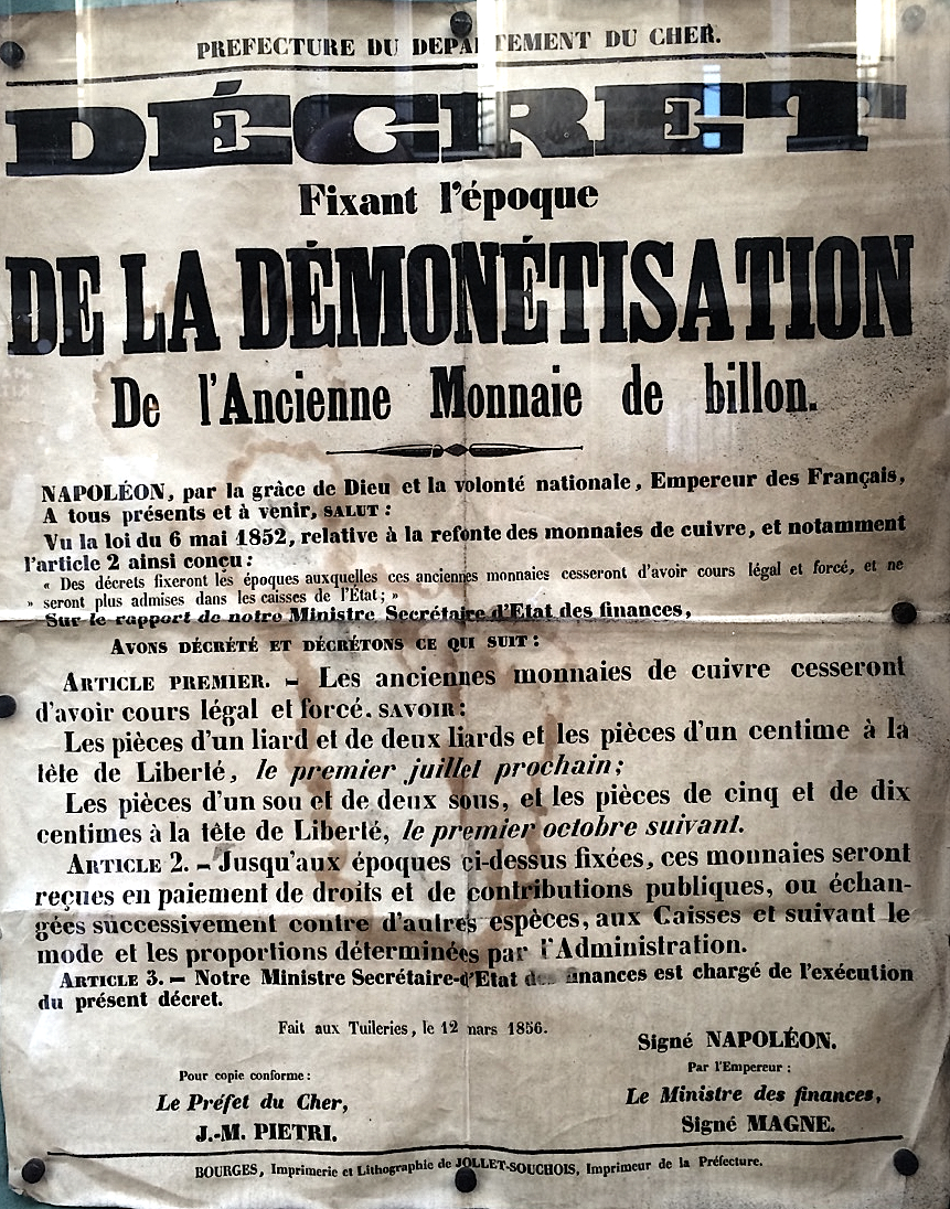 French Government Poster for the Money Act [demonetizing of old revolutionary & republic copper coins] of 1854 signed by Napoléon III — Département du Cher, printed in Bourges.